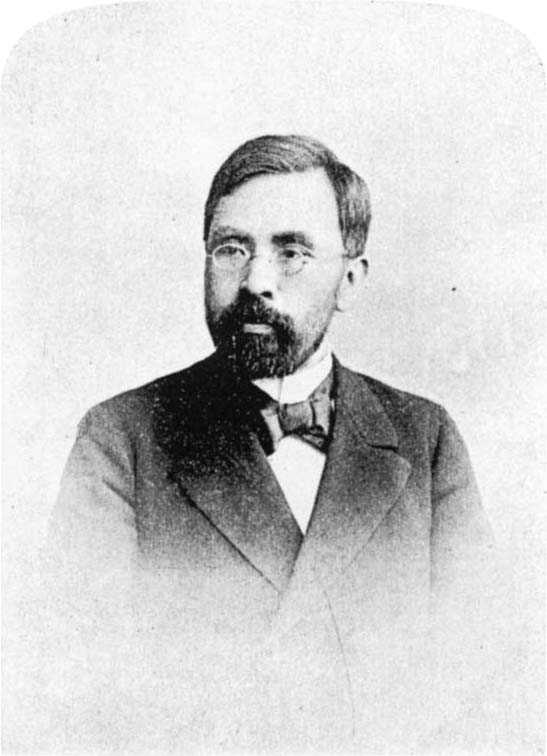 Mr. Nobuhachi Konishi, director of the Tokyo Blind and Dumb School.